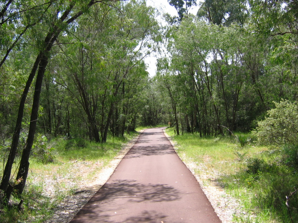 Tuart Walk in Dalyellup, south of Bunbury, Western Australia, officially opened 8 October 2006.